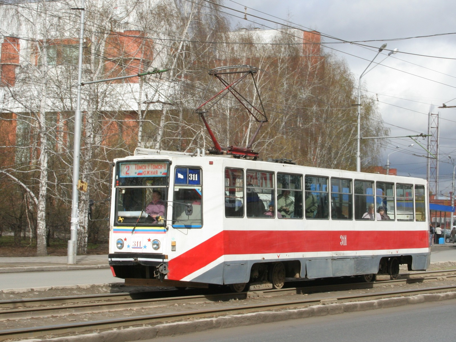 Tomsk tram KTM-8 (71-608K) #311. Kirov Avenue.